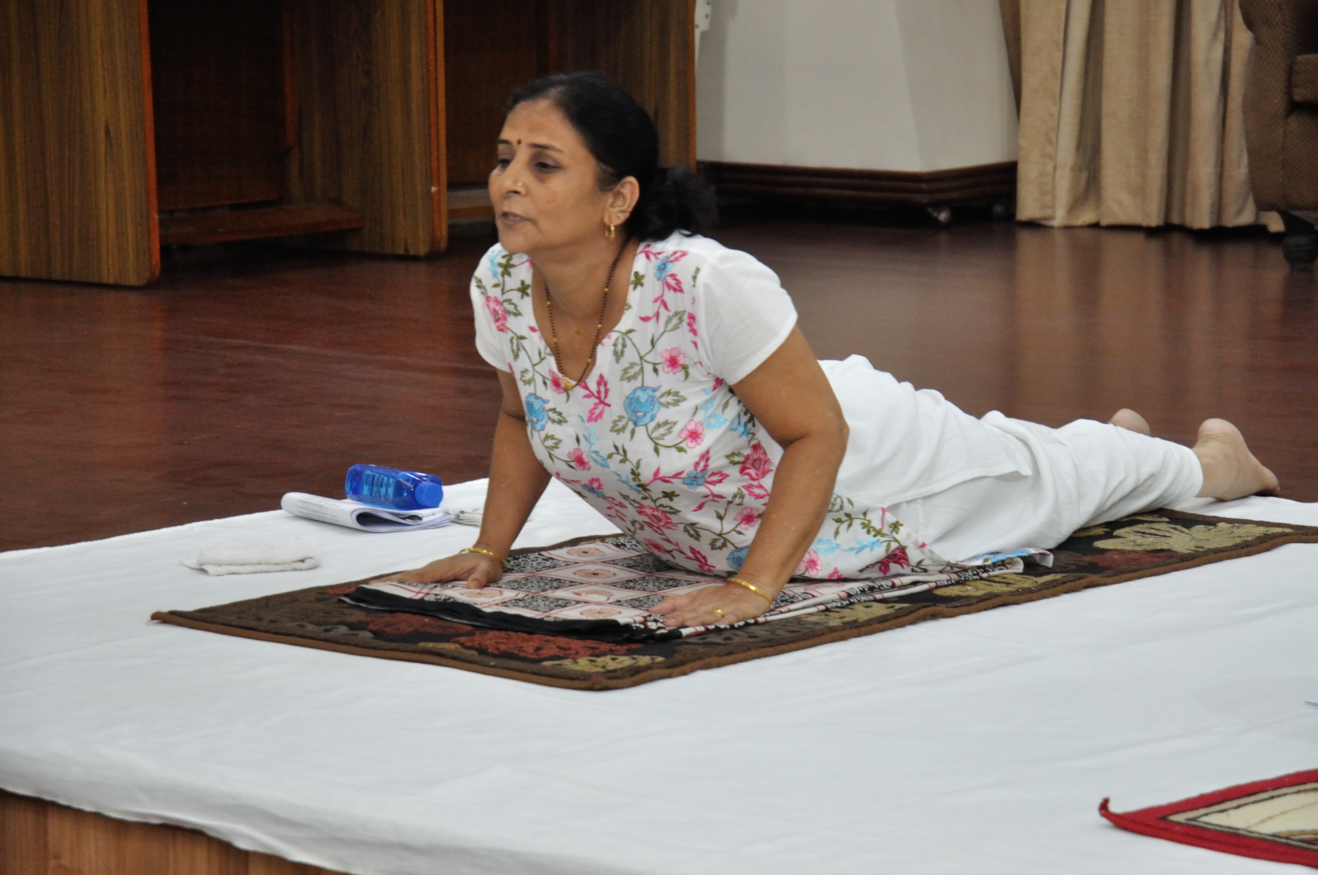 The ‘International Day of Yoga’ was celebrated by the National Council of Science Museums (NCSM), Kolkata, under the Ministry of Culture, Govt. of India. About fifty persons took part at the Yoga programme.